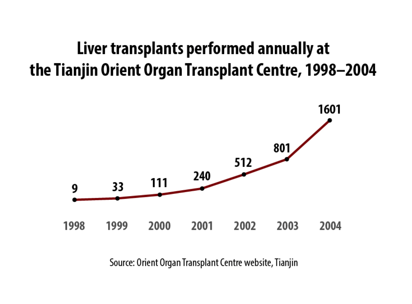 This graph shows the increase in liver transplants by year from 1998-2005 at the Tianjin Orient Organ Transplant Centre. Source: Orient Organ Transplant Centre Website, Tianjin City. Adapted from: (Page archived from Orient Organ Transplant Centre Website, 2006)